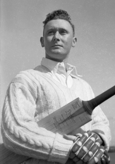 Gloucester, England. 1945-06-02. Portrait of 432462 Flying Officer D. R. Cristofani, a member of the RAAF cricket team which played a series of matches against representative teams of the English counties and the different services.